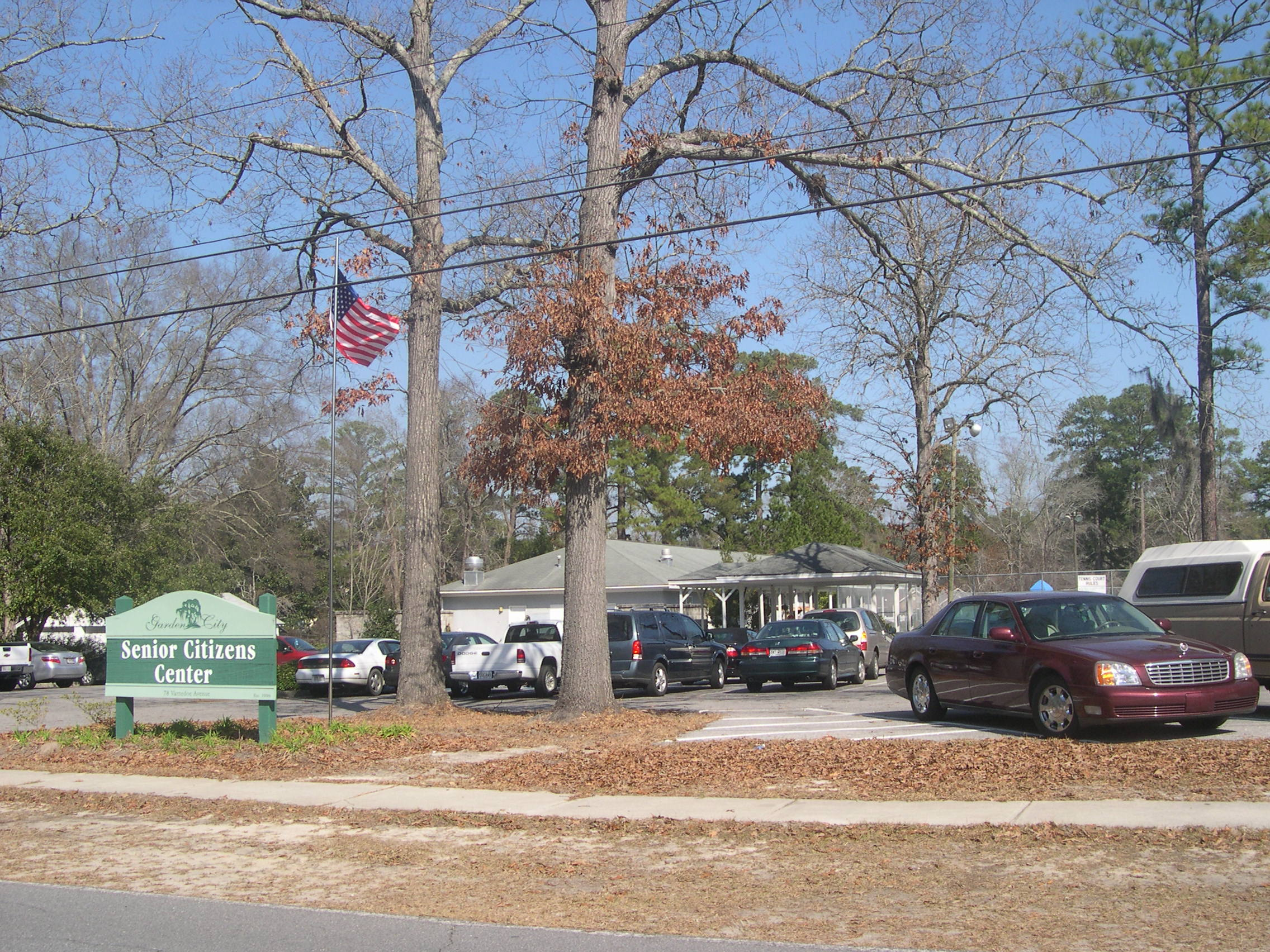 Senior Citizen Center, located at 78 Varnedoe Avenue, Garden City, Georgia